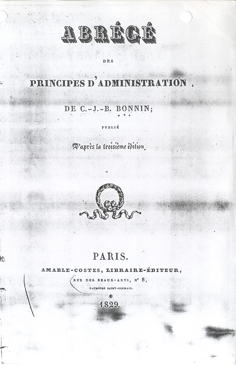 Compendio de Principios de Administración